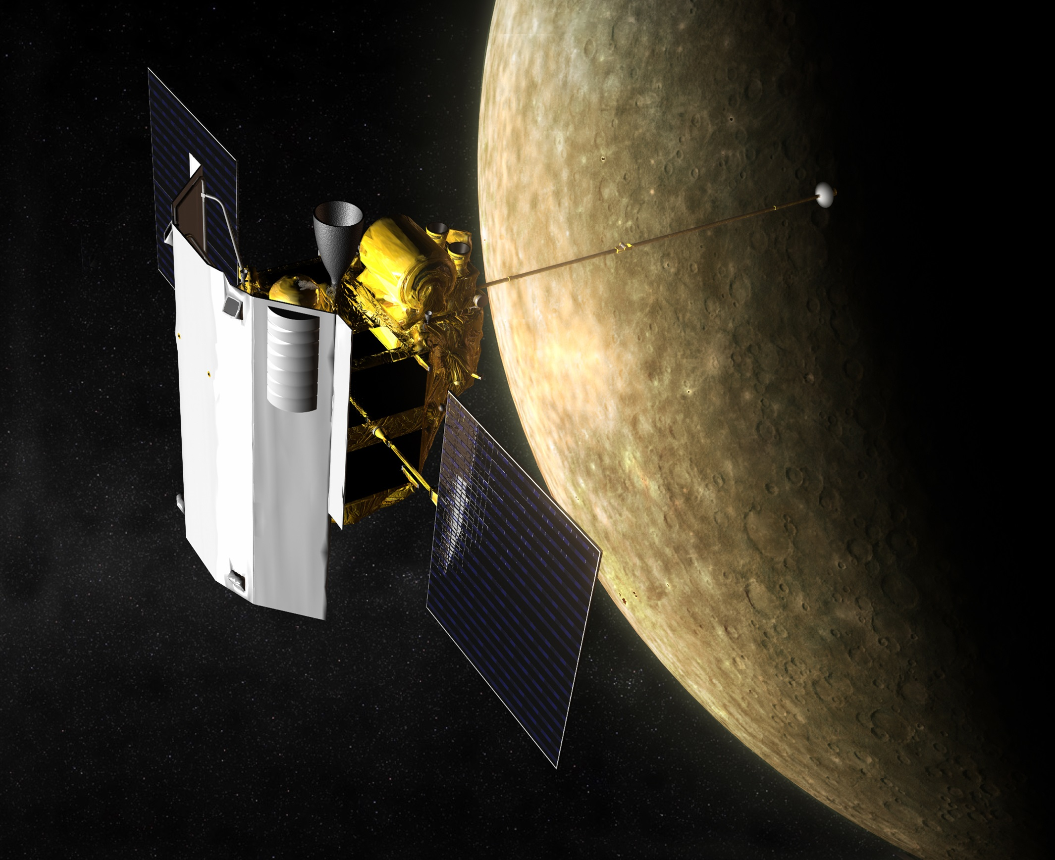 Artist depiction of the MESSENGER spacecraft in orbit around Mercury.